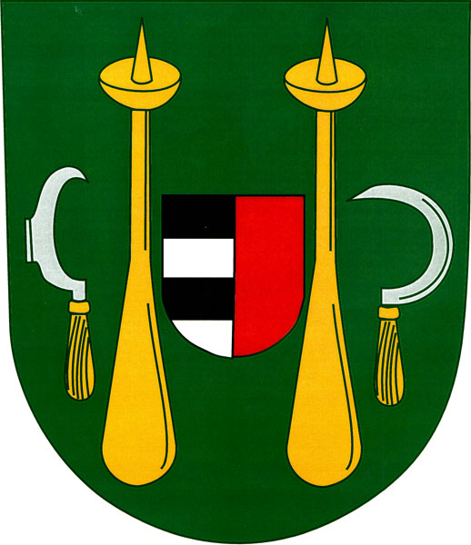 Municipal coat of arms of Žeravice village, Hodonín District, Czech Republic.